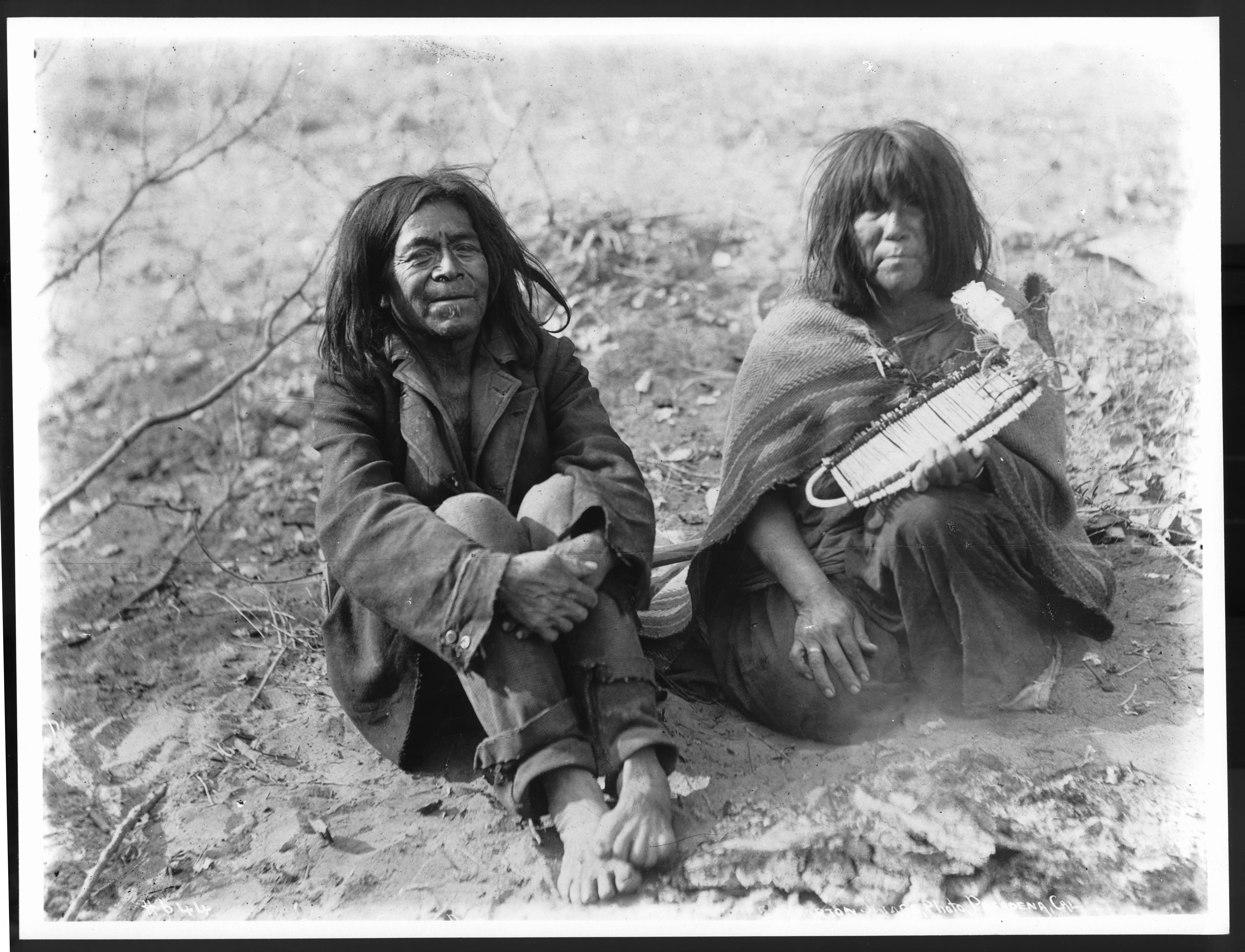 Havasupai Indian husband and wife displaying a cradle she has just made, ca.1900 Photograph of a Havasupai Indian husband and wife displaying a cradle she has just made, ca.1900. They sit on the ground. The man at left can be seen hugging his knees to his chest, while the woman at right kneels down on one leg. She holds up the small "papoose" cradle at right. Both people have long, dark hair and are wearing dark clothes. Vegetation is visible in the background. Call number: CHS-4692 Photographer: James, George Wharton Provenance: Southwest Native American Photograph Collection Filename: CHS-4692 Coverage date: circa 1900 Part of collection: California Historical Society Collection, 1860-1960 Type: images Part of subcollection: Title Insurance and Trust, and C.C. Pierce Photography Collection, 1860-1960 Repository name: USC Libraries Special Collections Accession number: 4692 Microfiche number: 1-167- Archival file: chs_Volume98/CHS-4692.tiff Repository address: Doheny Memorial Library, Los Angeles, CA 90089-0189 Geographic subject (country): USA Format (aacr2): 1 microfilm frame : negative, b&w ; 35 mm.; 1 photograph : photoprint, b&w ; 17 x 22 cm. Rights: Digitally reproduced by the USC Digital Library; From the California Historical Society Collection at the University of Southern California Subject (adlf): tribal areas Project: USC Repository Identifying number: unidentified no: James-644; unidentified no: G Contributing entity: California Historical Society Date created: circa 1900 Publisher (of the digital version): University of Southern California. Libraries Format (aat): photographic prints; microfilms; photographs Geographic subject (state): Arizona Legacy record ID: chs-m17008; USC-1-1-1-13517 Access conditions: Send requests to address or e-mail given. Phone (213) 821-2366; fax (213) 740-2343. Subject (file heading): Indians -- Havasupai Subject (lcsh): Indians of North America; Havasupai Indians Subject: Havasupai Indians